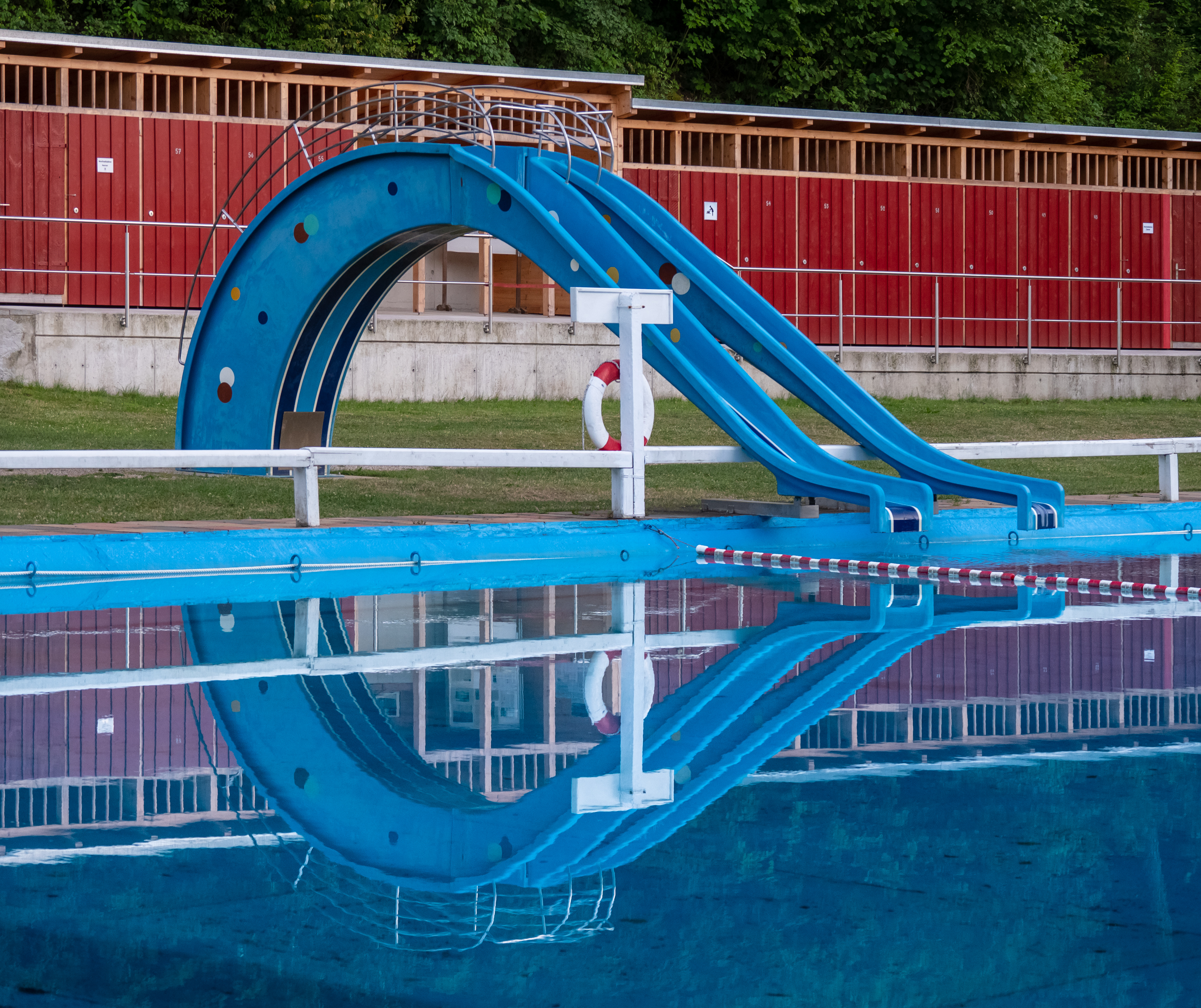 Water slide in the outdoor pool Streitberg